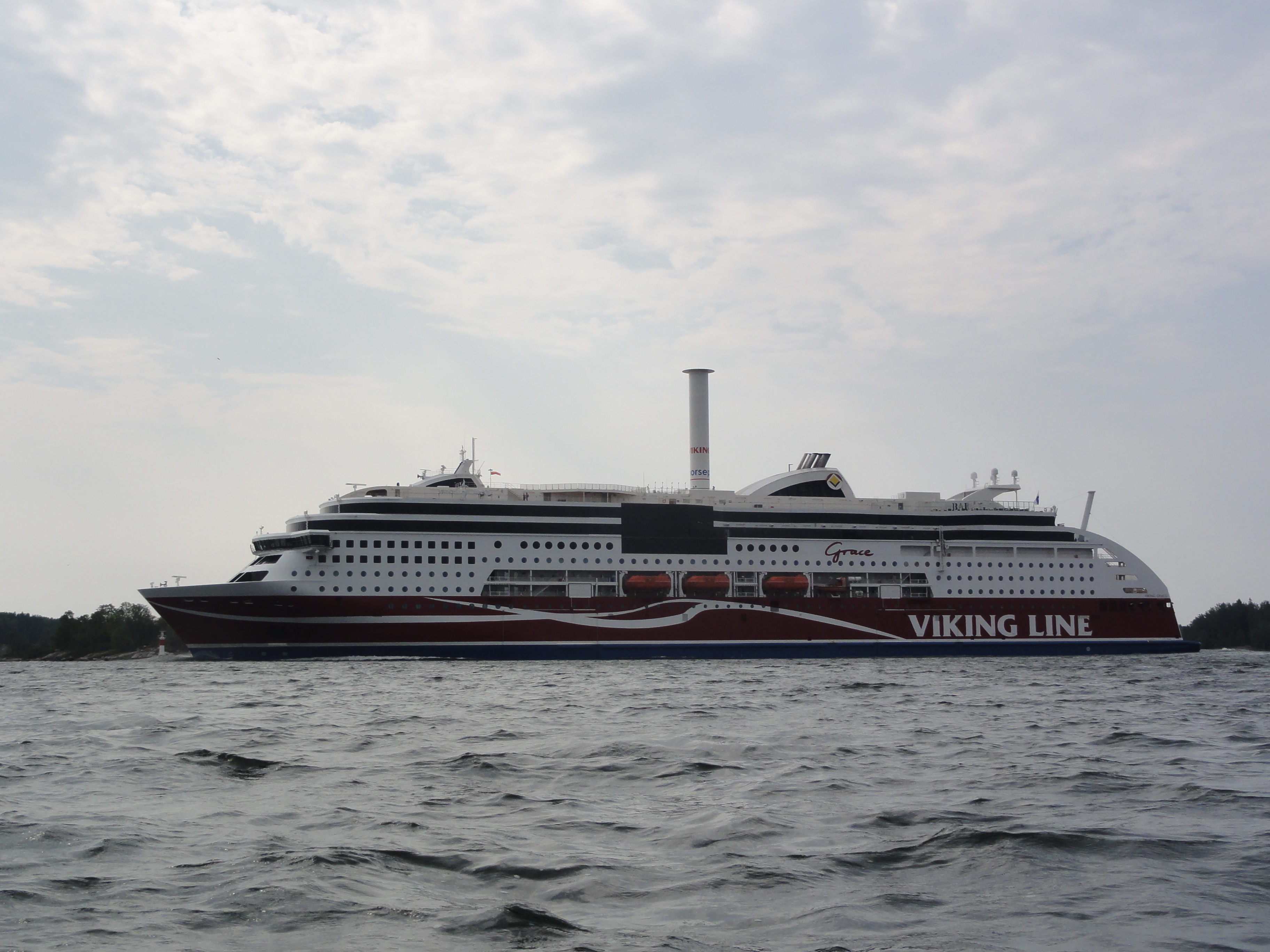 M/S Viking Grace at Lunsen, Furusundsleden in Stocholm Archipelago 2018. With the rotor, as it was converted to a rotor ship for that season.